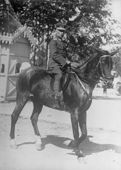 The Greek Lt. General Konstantinos Moschopoulos, in 1916